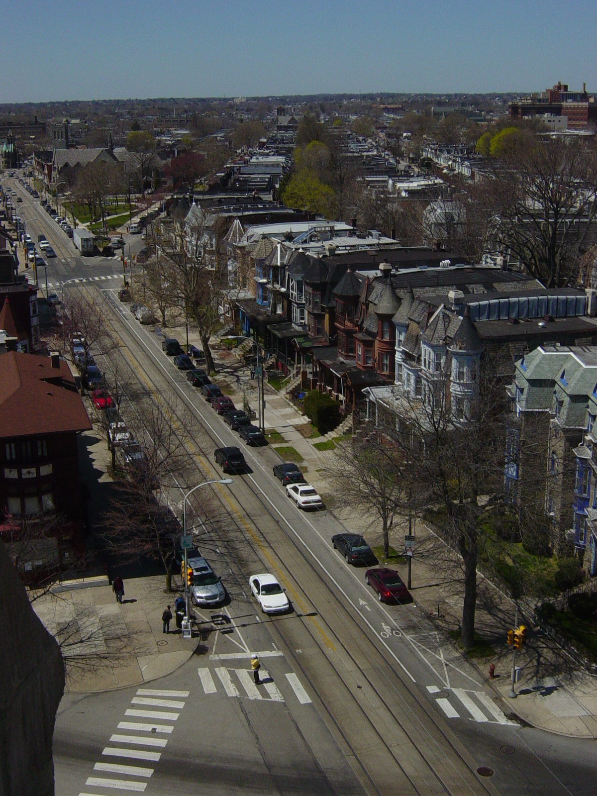 View to the west, including Baltimore Avenue, from atop Calvary United Methodist Church at 48th and Baltimore in West Philadelphia.